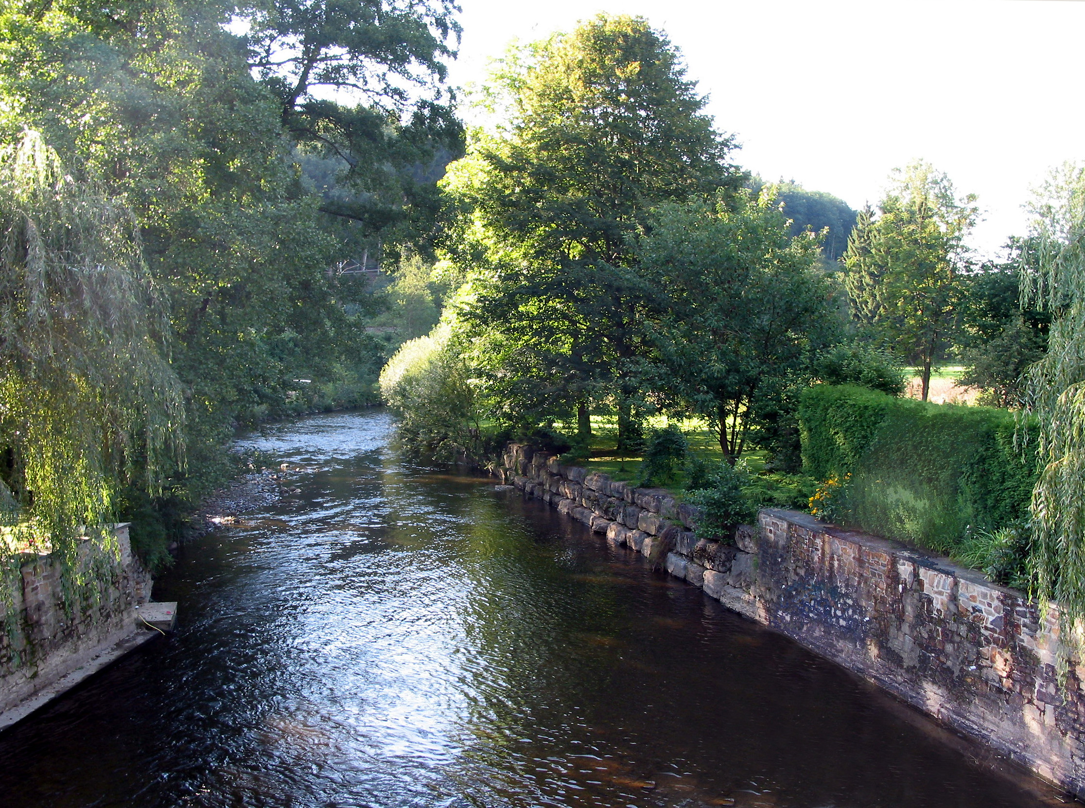 Forrières (Belgium), rue de Jemelle – the L'Homme river on the upstream side of the Basteau street.. Walon: Forîre (Bèljike), rouwe di Djmêle – L’Ome a l’amont do pont dol rouwe do Basteau.